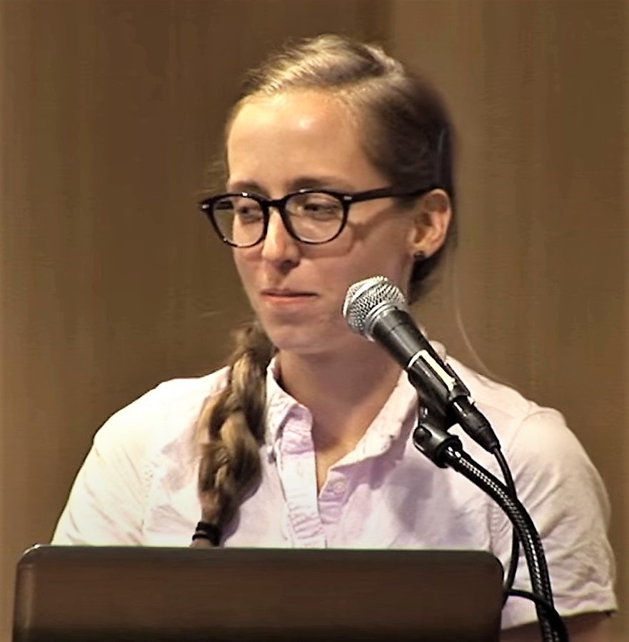 SPX 2015 - Ignatz Awards Ceremony The Ignatz Award, named for the character in the classic comic strip Krazy Kat by George Herriman, is the festival prize of the Small Press Expo. Since 1997 the Ignatz has recognized outstanding achievement in comics and cartooning. The award recognizes exceptional work that challenges popular notions of what comics can achieve, both as an art form and as a means of personal expression. Only those present at the Small Press Expo may cast a vote to decide the winners. The ballot is created by a jury of five cartoonists and is voted on by the attendees of the SPX festival. 2015 Jurors are Lamar Abrams, Cara Bean, Robyn Chapman, Sophie Goldstein and Corrine Mucha. Mistress of Ceremonies C. Spike Trotman hosts the 2015 award ceremony. The 2015 Ignatz Awards are sponsored by Comixology Submit Promising New Talent - Sophia Foster-Dimino for Sphincter, Sex Fantasy Outstanding Series - Sex Fantasy by Sophia Foster-Dimino Outstanding Minicomic - Sex Fantasy #4 by Sophia Foster-Dimino